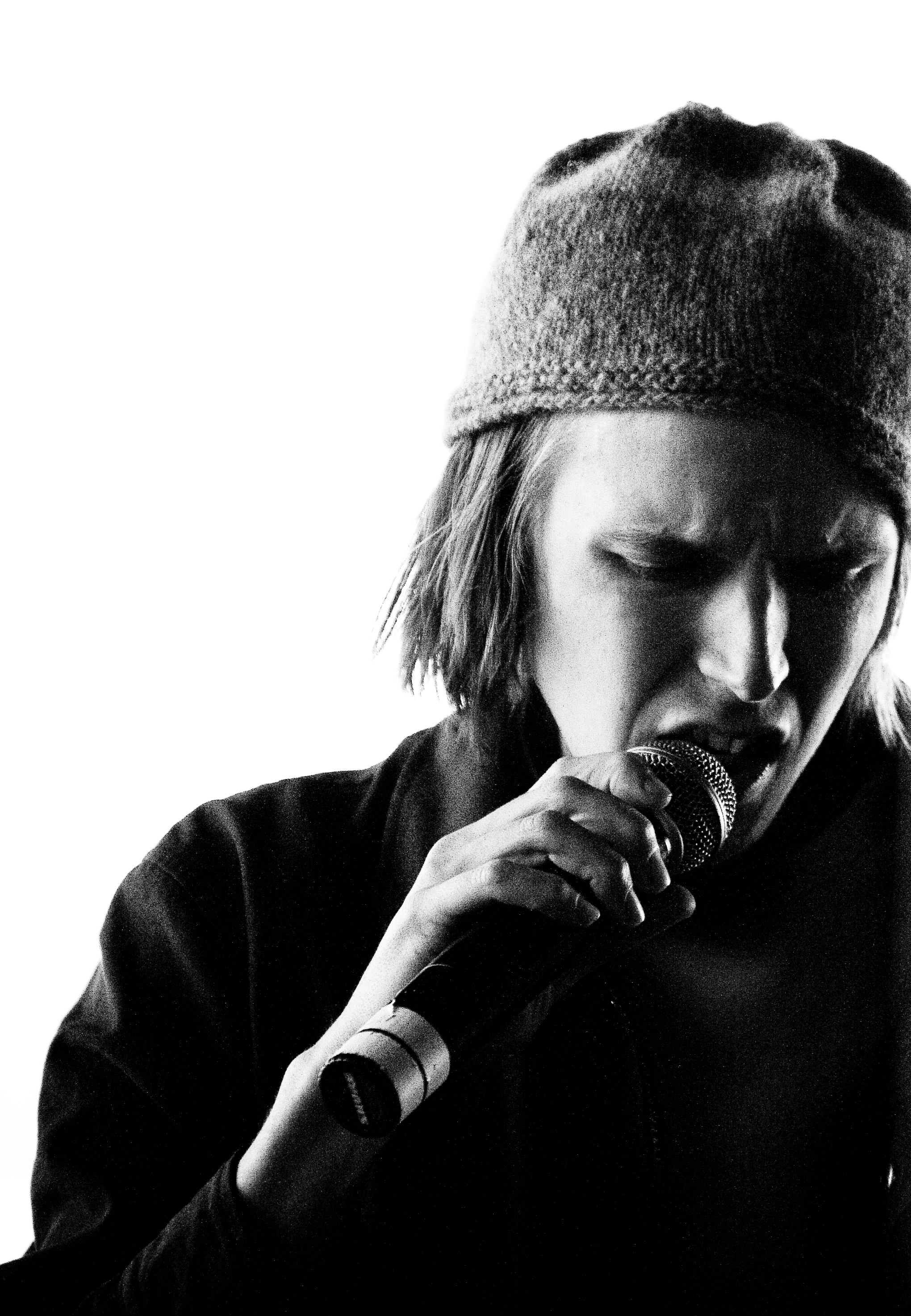 Jukka Poika is a Finnish reggae artist.